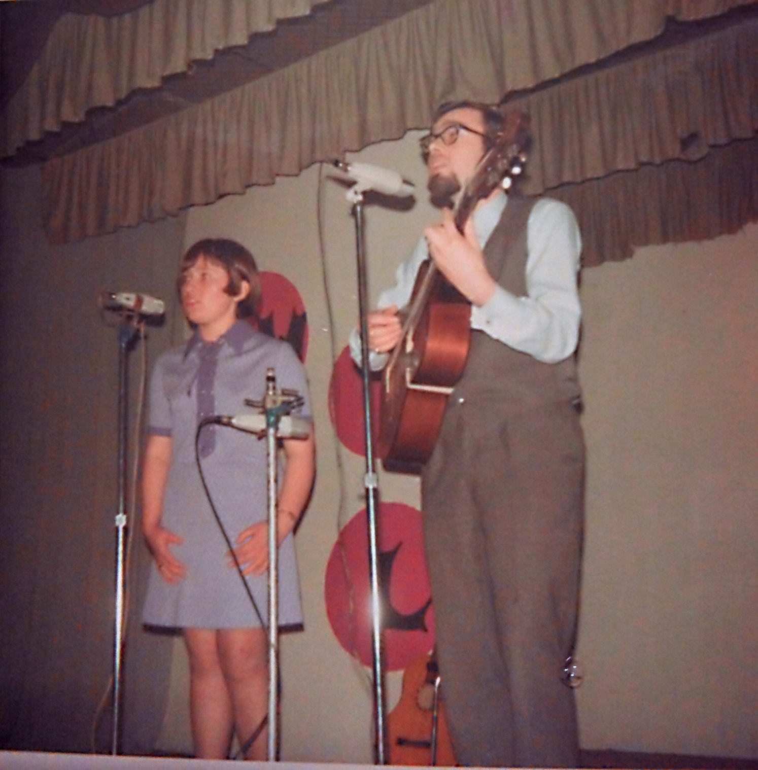 Claire singing together with Miel Cools.